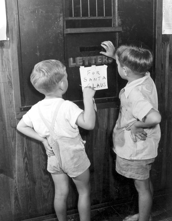 Local call number: C008523 Title: Letters to Santa Claus: Christmas, Florida Date: Photographed in December, 1947. Physical description: 1 photoprint - b&w - 5 x 4 in. Series Title: Department of Commerce collection General note: Lewis Yates, age 4, and Stanley Yates, age 5, drop their letters to Santa in the special letter box. Repository: State Library and Archives of Florida, 500 S. Bronough St., Tallahassee, FL 32399-0250 USA. Contact: 850-245-6700. Persistent URL